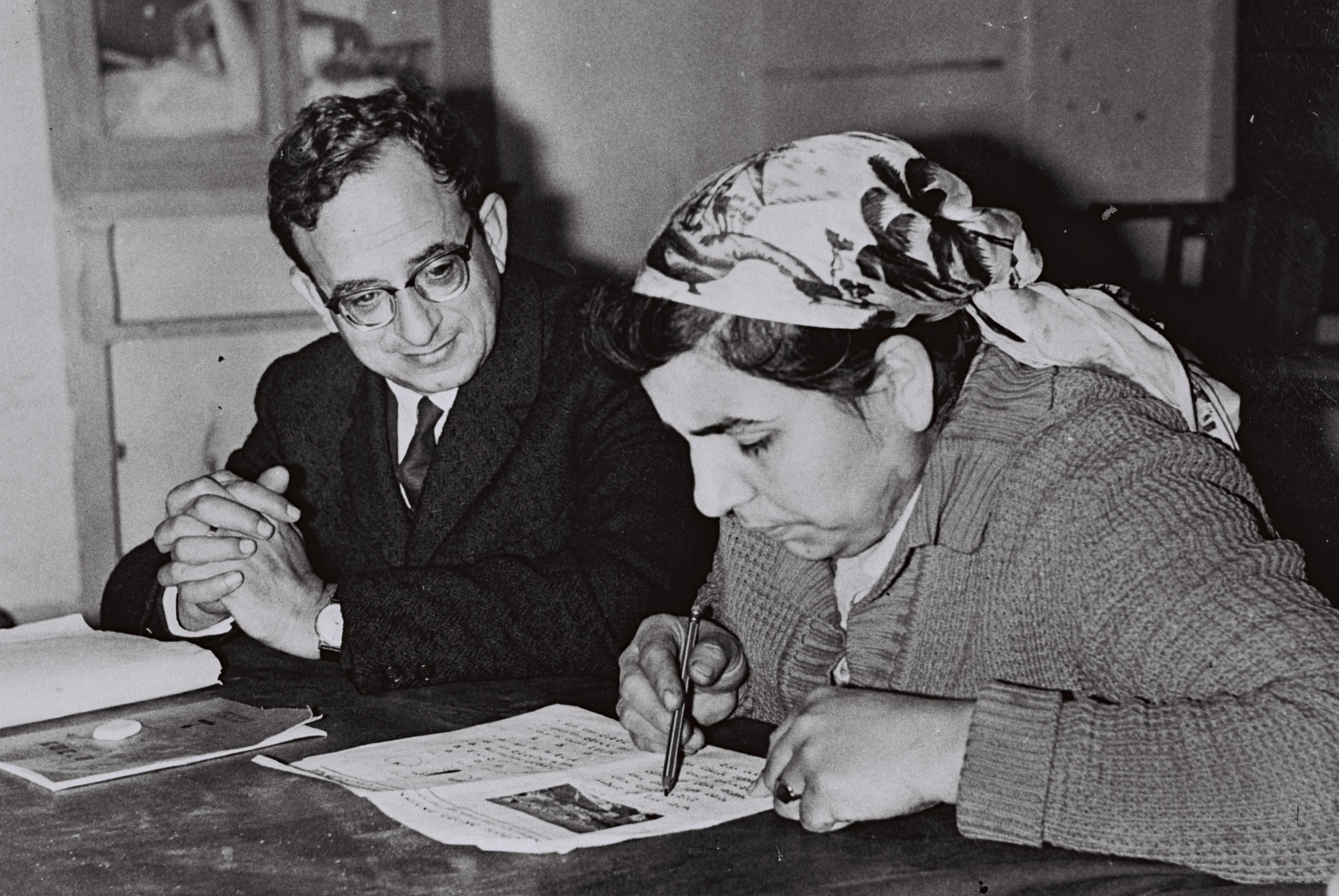 THE DIRECTOR OF THE JEWISH AGENCY CULTURAL DIVISION FOR NEW IMMIGRANTS' EDUCATION YITZHAK NAVON WATCHING A MOTHER OF TEN CHILDREN READING FROM HER LESSON.